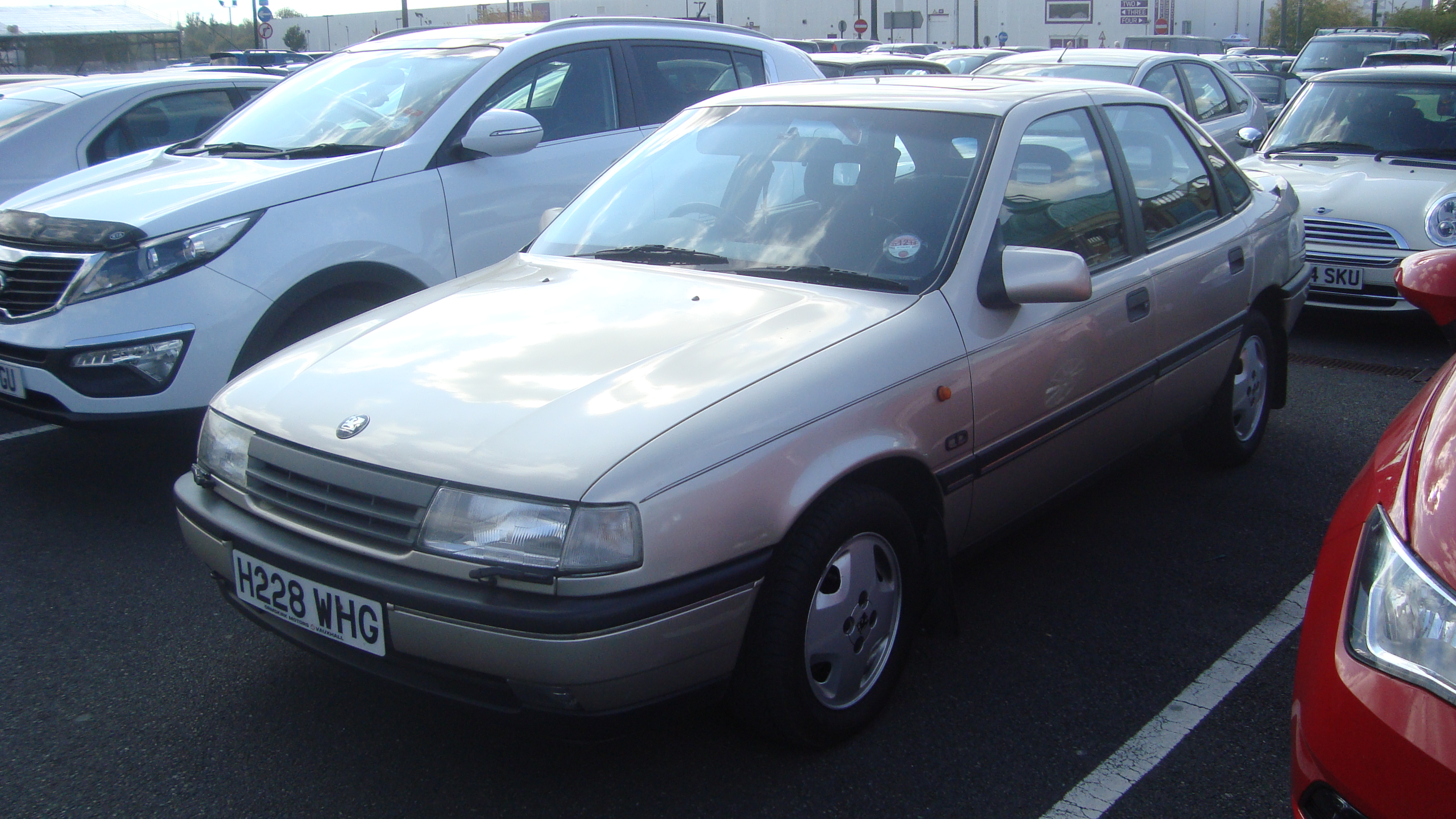 Made my day seeing this, out of the 4 Cavaliers in the car park this was my favourite by a country mile